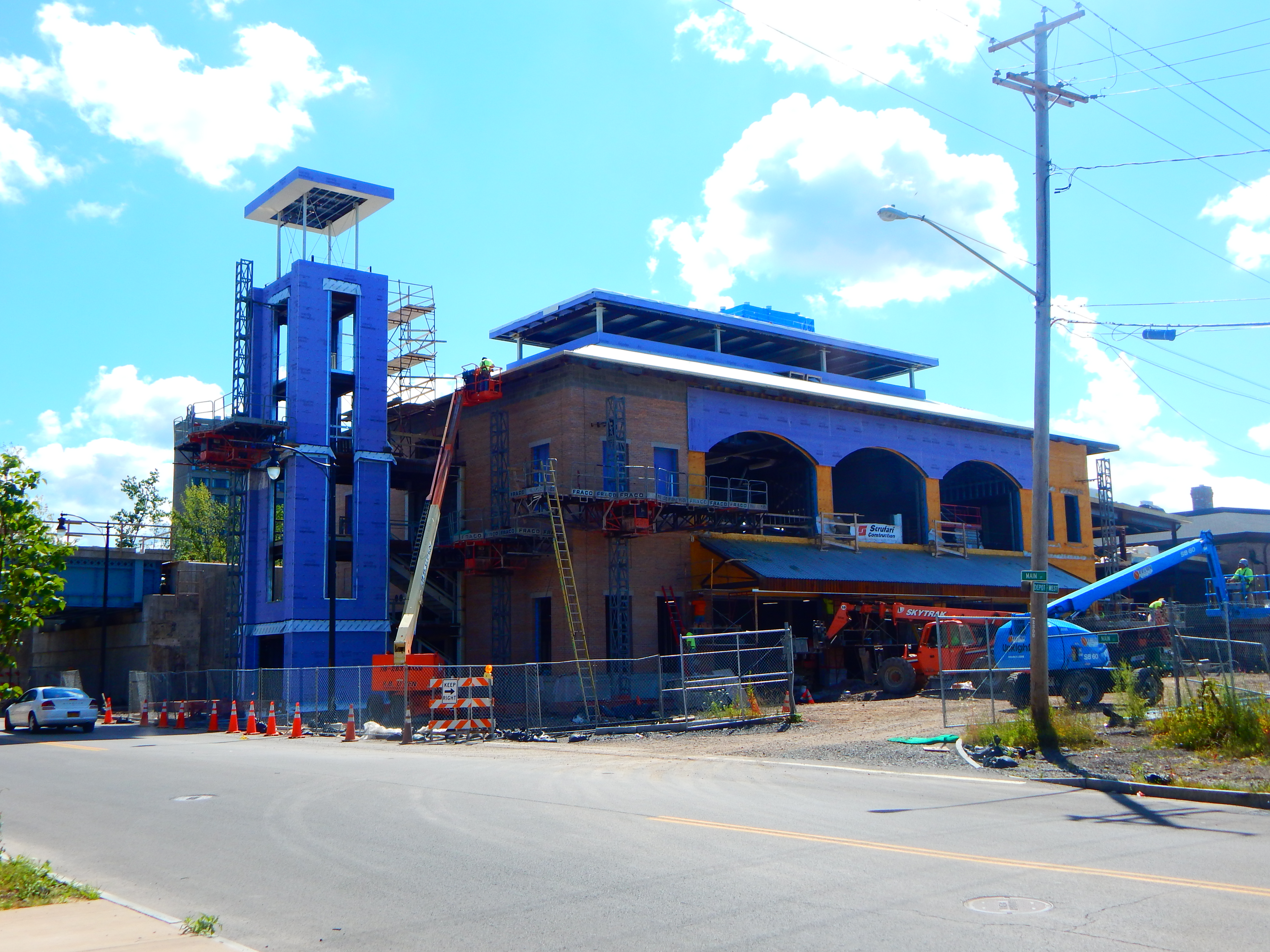 Niagara Falls Amtrak station of the future in Niagara Falls, New York in August 2015.